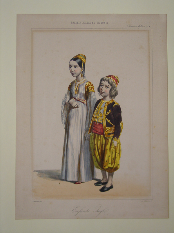 Description: Enfants Juifs (Jewish children from Algeria) Creator: Benjamin Roubaud Imp. D'Aubert & Cie. Object Origin: Paris, France Medium: color engraving on paper Date: 1842 Persistent URL: Repository: Yeshiva University Museum, 15 West 16th Street, New York, NY 10011 Accession Number: 2004.169 Rights Information: No known copyright restrictions; may be subject to third party rights. For more copyright information, click here. See more information about this image and others at CJH Museum Collections.